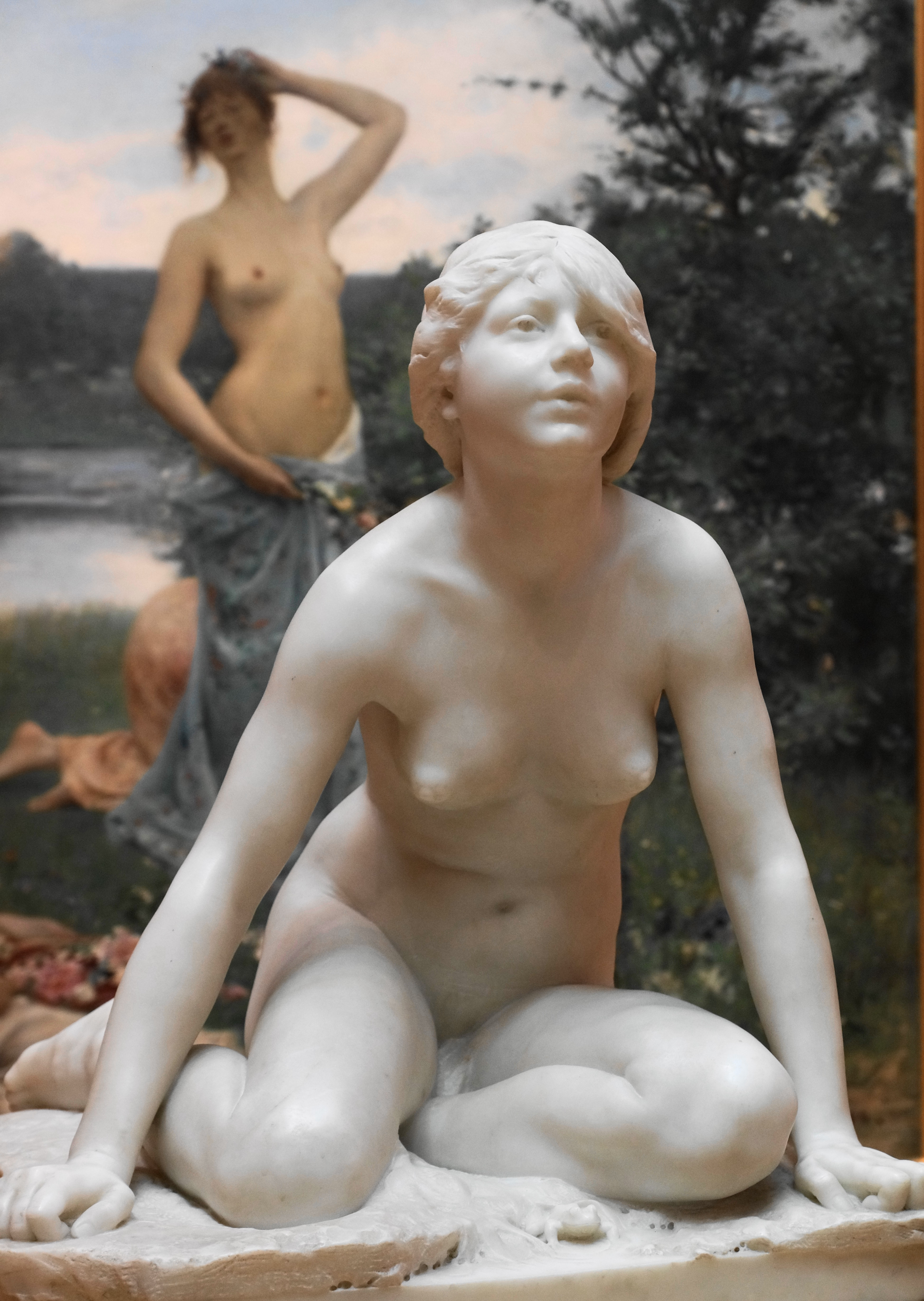 This is a photo of an artwork at the Gothenburg Museum of Art in Sweden with the identifier: F 177